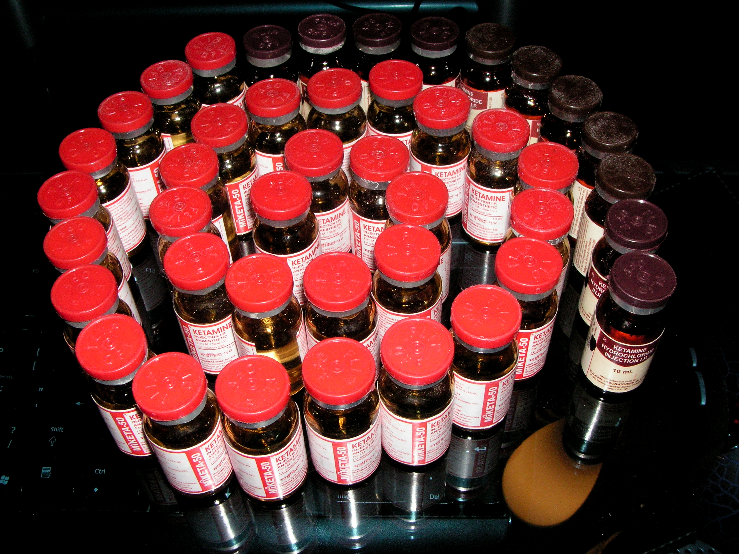 Vials ready for administration or immediate disposal.